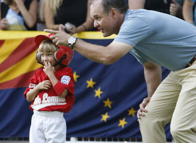 Baseball legend and hall of famer Ryne Sandberg , gives some tips to Abigail Purcell of the Eastern U.S. All-Stars, Wednesday, July 16, 2008, during an All-Star Tee Ball doubleheader on the South Lawn of the White House